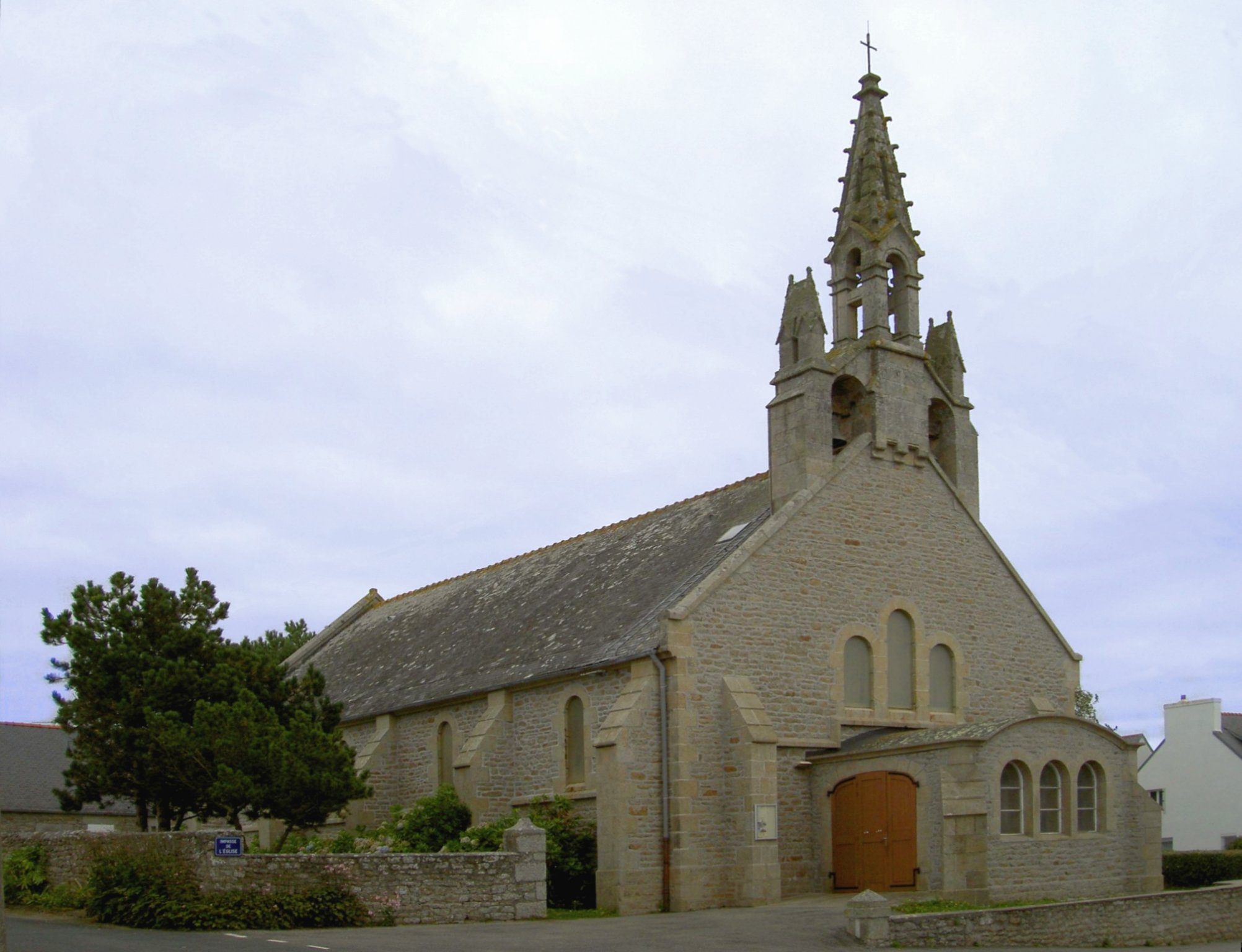 Church of Lesconil, France.